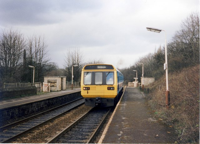 Strines railway station Original description: Strines station